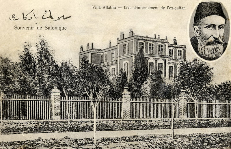 Post-card by Matarasso, Saragoussi & Rousso, Salonique (Salonika, Thessaloniki) mailed on June 22nd. 1912, from Salonika, to New-York City. "It is now 8 P.M. and I am pretty well toasted. If the Sun had been visible an hour longer, I should have been done to a turn. The ex-Sultan is closely guarded here and no one is allowed near the house.The guard is changed every month to avoid bribery. Monte." Sultan Abdul Hamid II (1842-1918), known as the Red Sultan, was the last of the autocratic Ottoman Sultans, ruled from 1876 to April, 27th. 1909. He was deposed by the Young Turks and exiled to Salonika, then part of the Ottoman Empire, and placed under house arrest at the Villa Allatini, until Oct 17th., 1912, when the Greek army entered the city and incorporated it in the Greek state. He was moved to Constantinople and placed under house arrest at the Beylerbey Palace until his death on Feb. 10th. 1918.